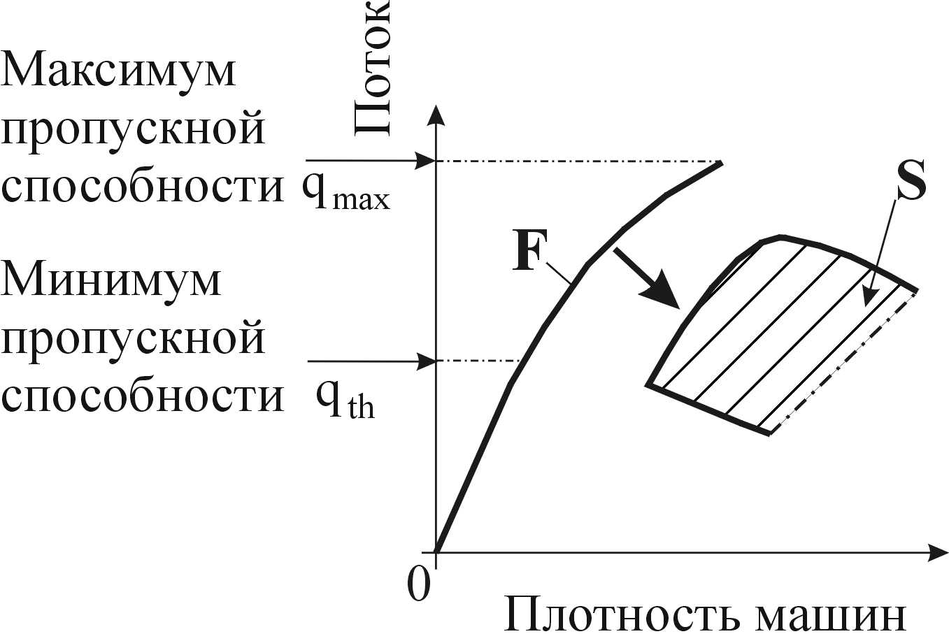 Maximum and minimum highway capacities in Kerner’s three-phase traffic theory